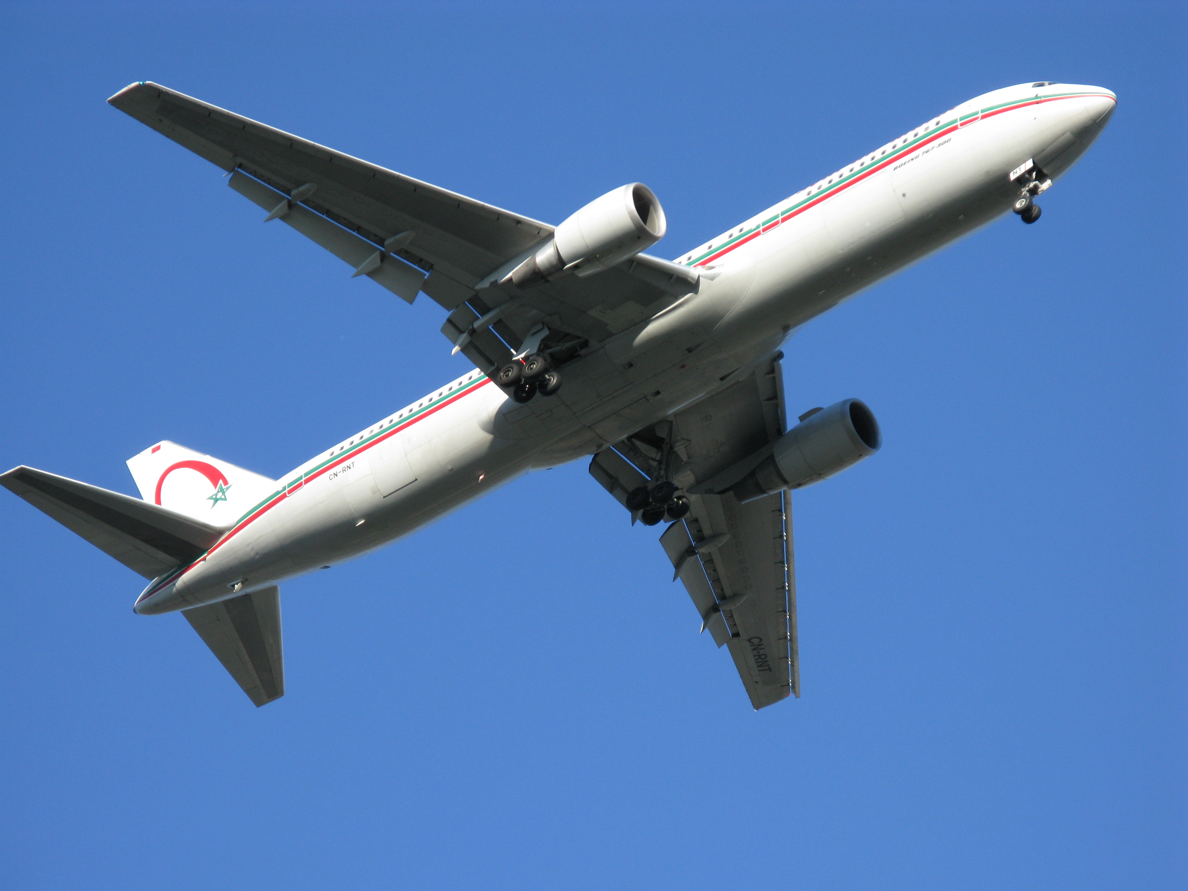 A Royal Air Maroc Boeing 767-300ER (civil registration : CN-RNT) on final for runway 24R at Montréal-Trudeau International Airport (YUL/CYUL).